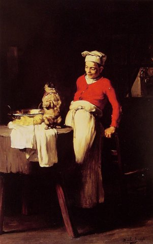 by Joseph Bail